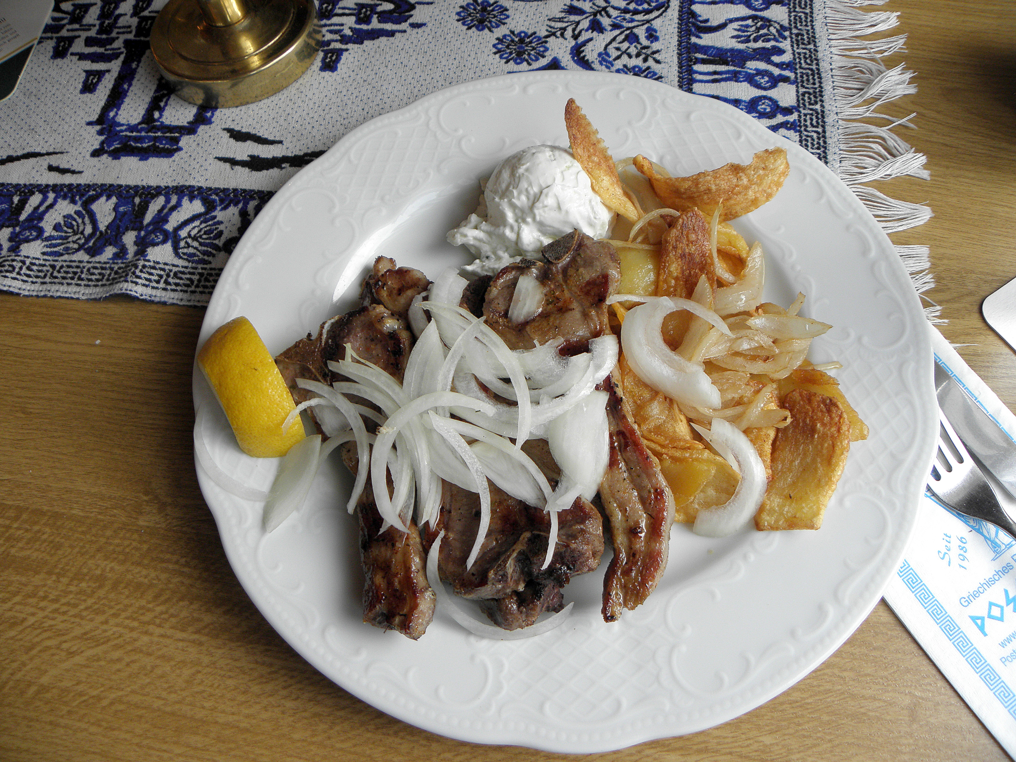 Grilled Greek cuisine from a restaurant in Germany